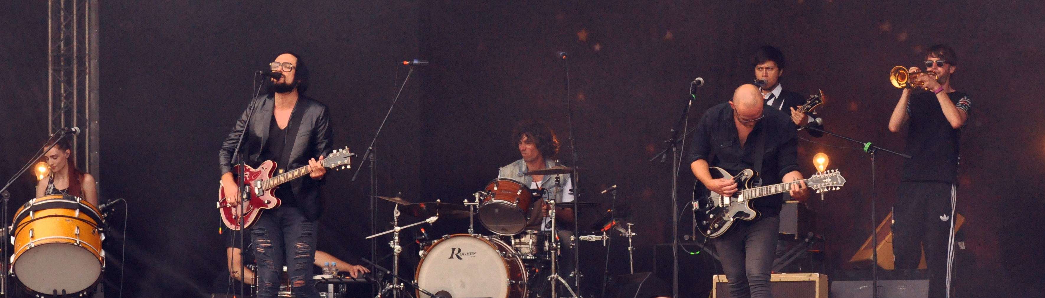 Dutch singer-songwriter Blaudzun at Rocken am Brocken 2014